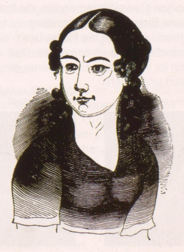 Christiane Ruthardt, 1845